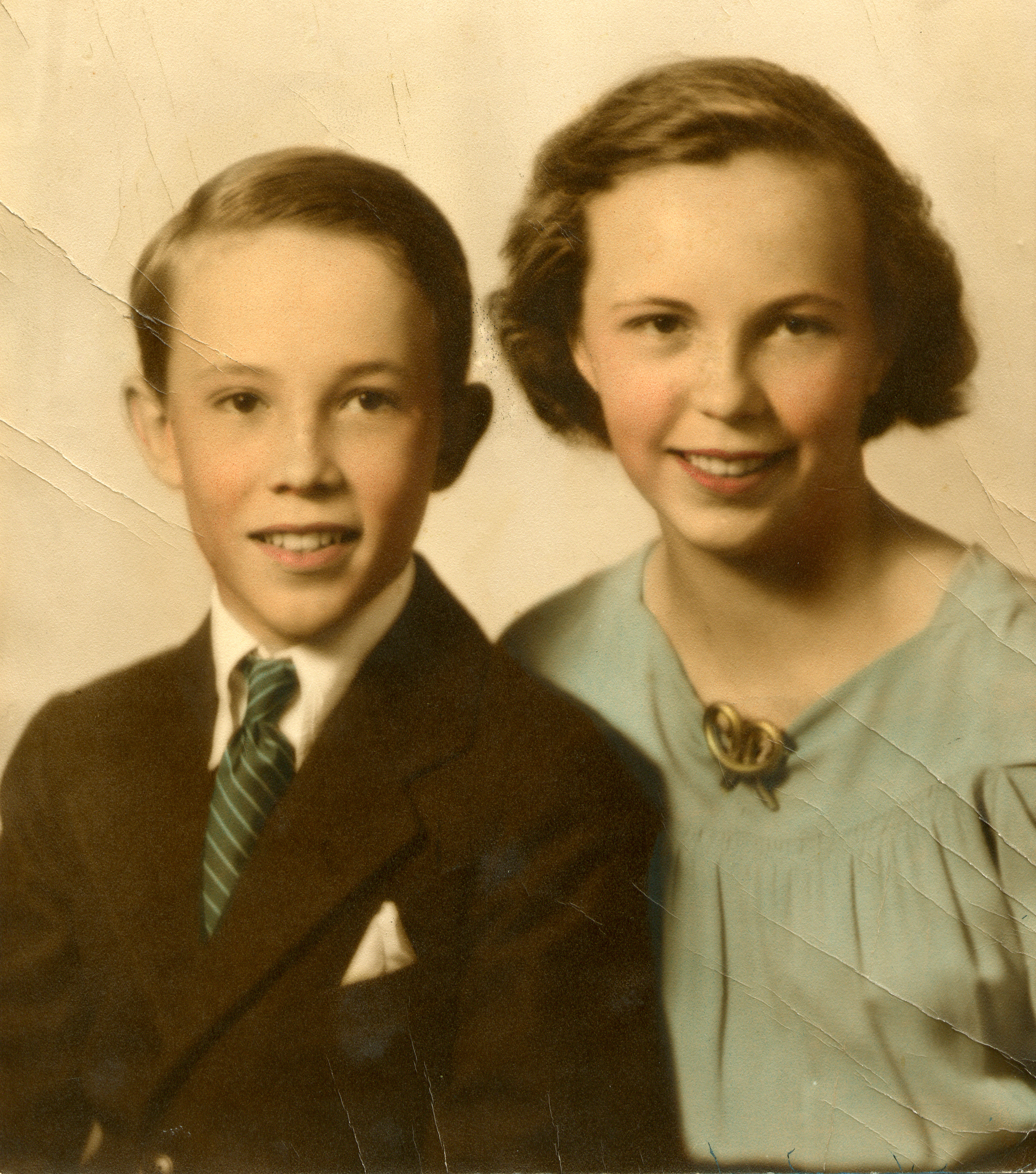 Robert and Alice Perew, brother and sister in November 1937.